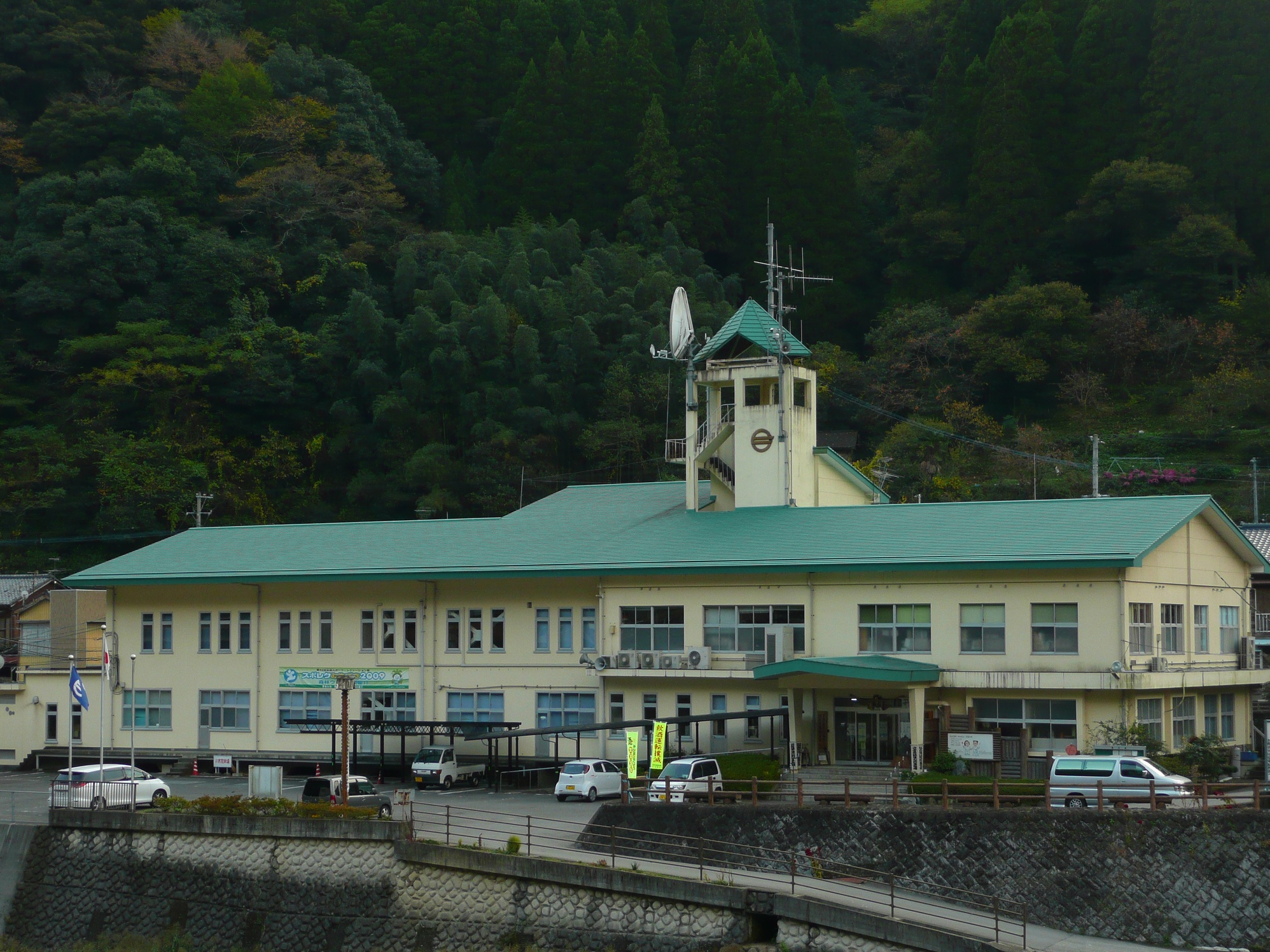 Hinokage Town Office (November 2009 - Miyazaki Prefecture, Japan)